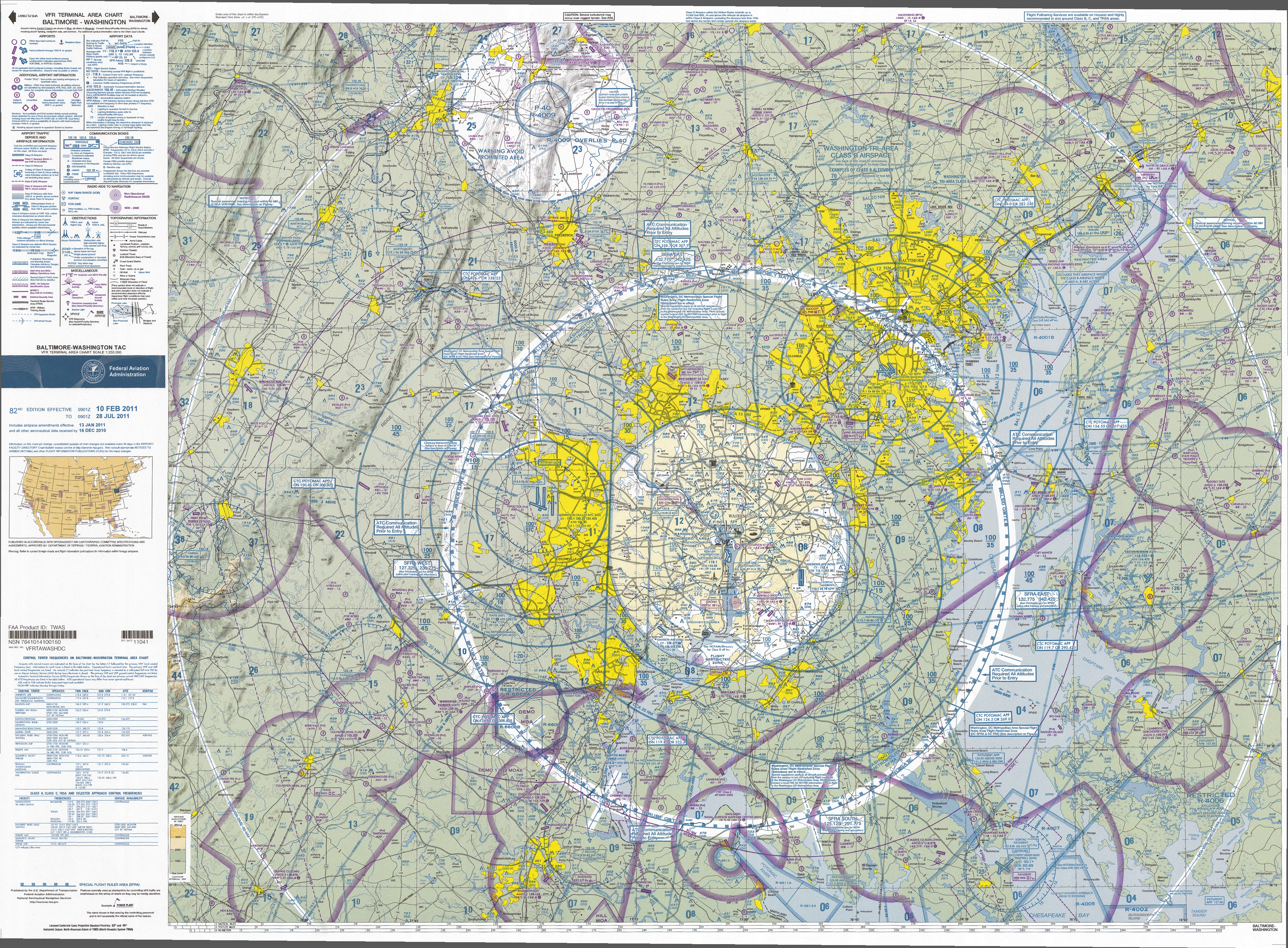 VFR Terminal Area Raster Aeronautical Chart Baltimore/Washington, 82nd edition. This map is valid until 28 July 2011, be sure to get the newest edition at the official FAA website